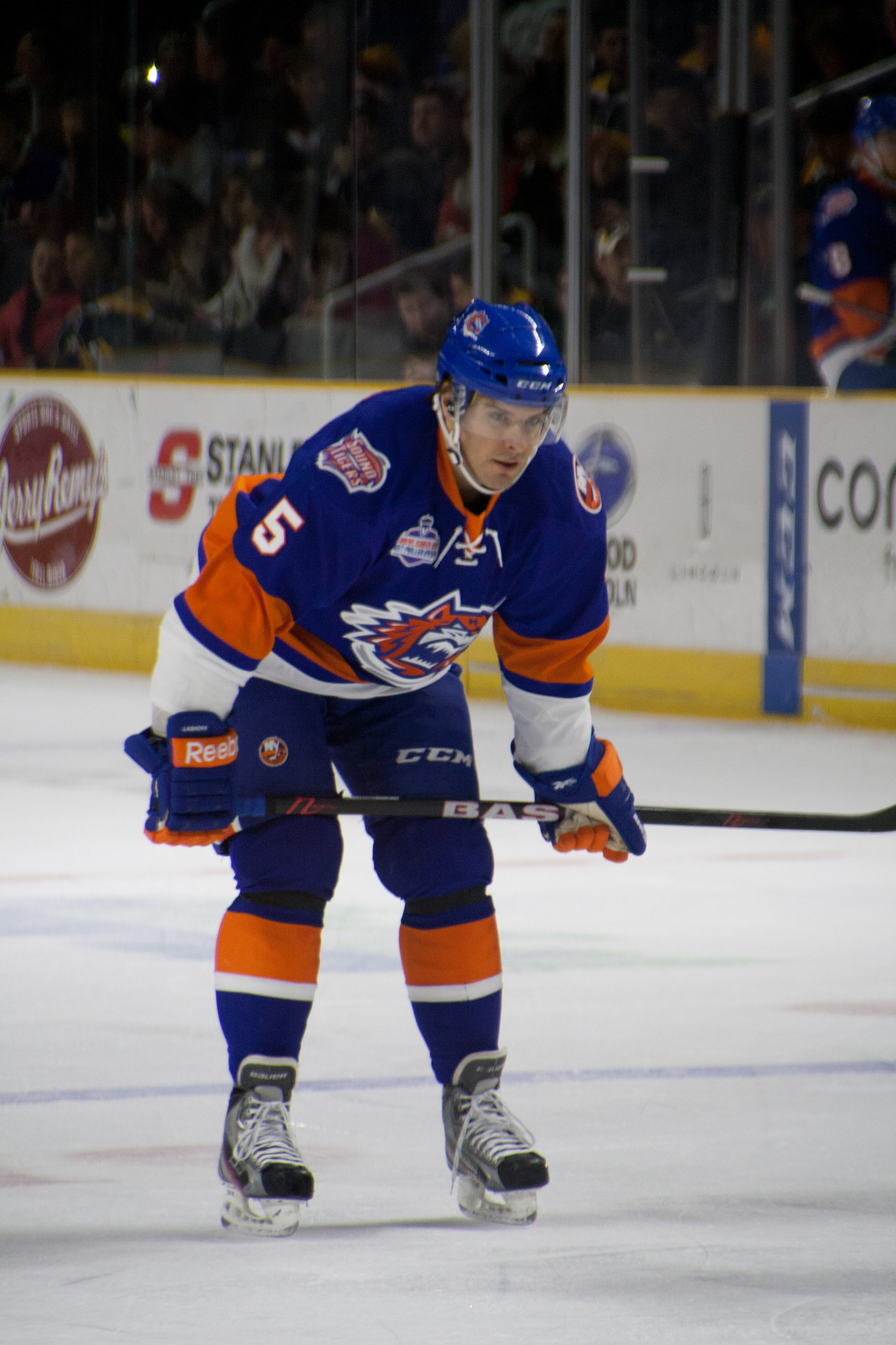 Matt Lashoff with the Bridgeport Sound Tigers (2015)